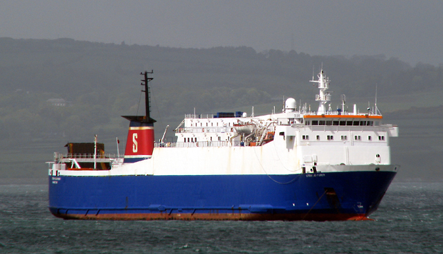 The vehicle and passenger ferry MS Stena Seafarer at anchor in Belfast Lough. The ferry normally works on the Larne-Fleetwood route but a recent reduction in weekend sailings has seen the vessel usually laid up at Belfast. On the weekend of 16th/17th May, rather than dock at Belfast, the ferry anchored in Belfast Lough just off Bangor.